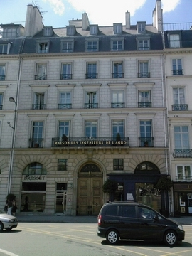 UniAgro